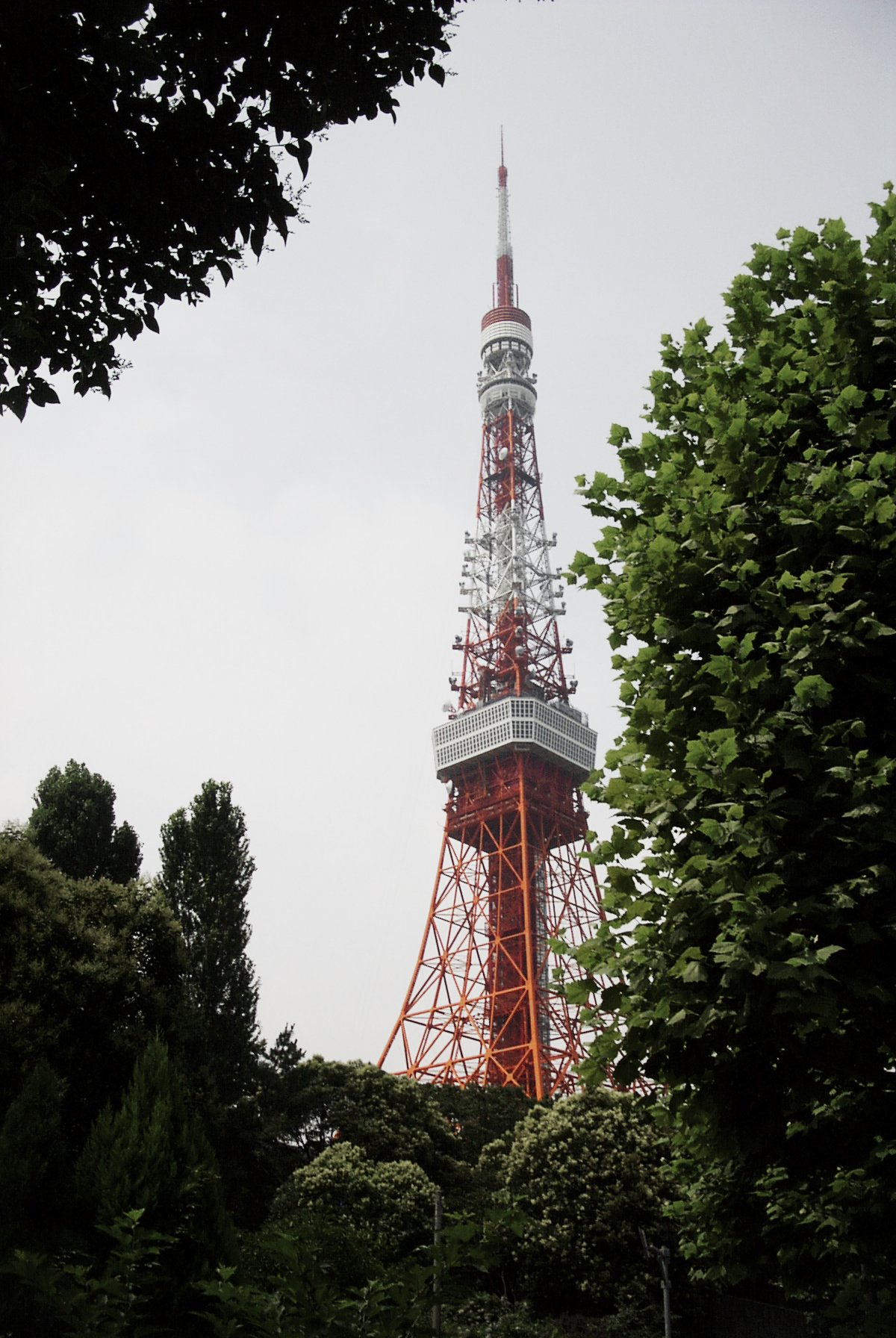 Tokyo Tower by day Photo taken by me in July, 2006.